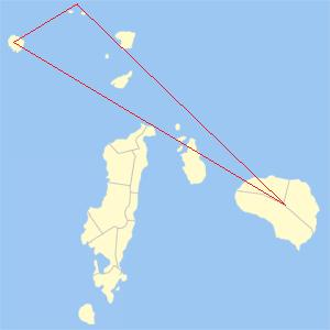 Alleged location of Romblon Triangle in the Philippines